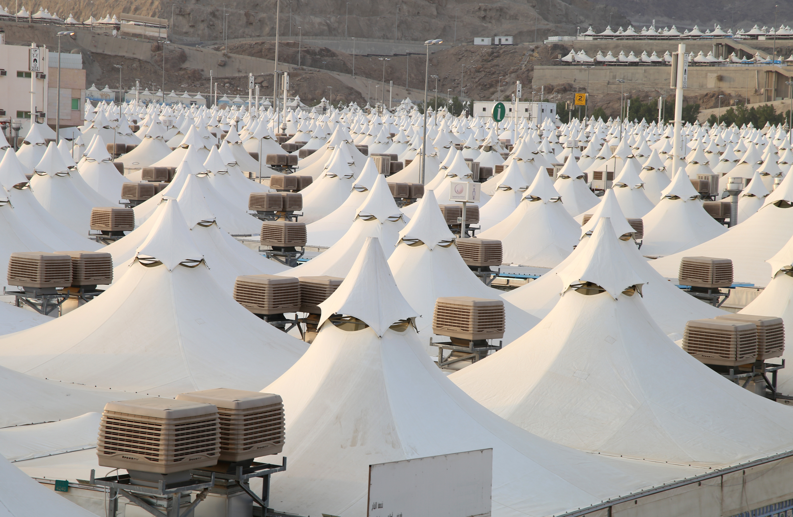 The picture describes the tents in Mina city (Saudi Arabia), just 2 kilometers away from Mecca. The tents are air conditioned with evaporative cooling units made in Australia.